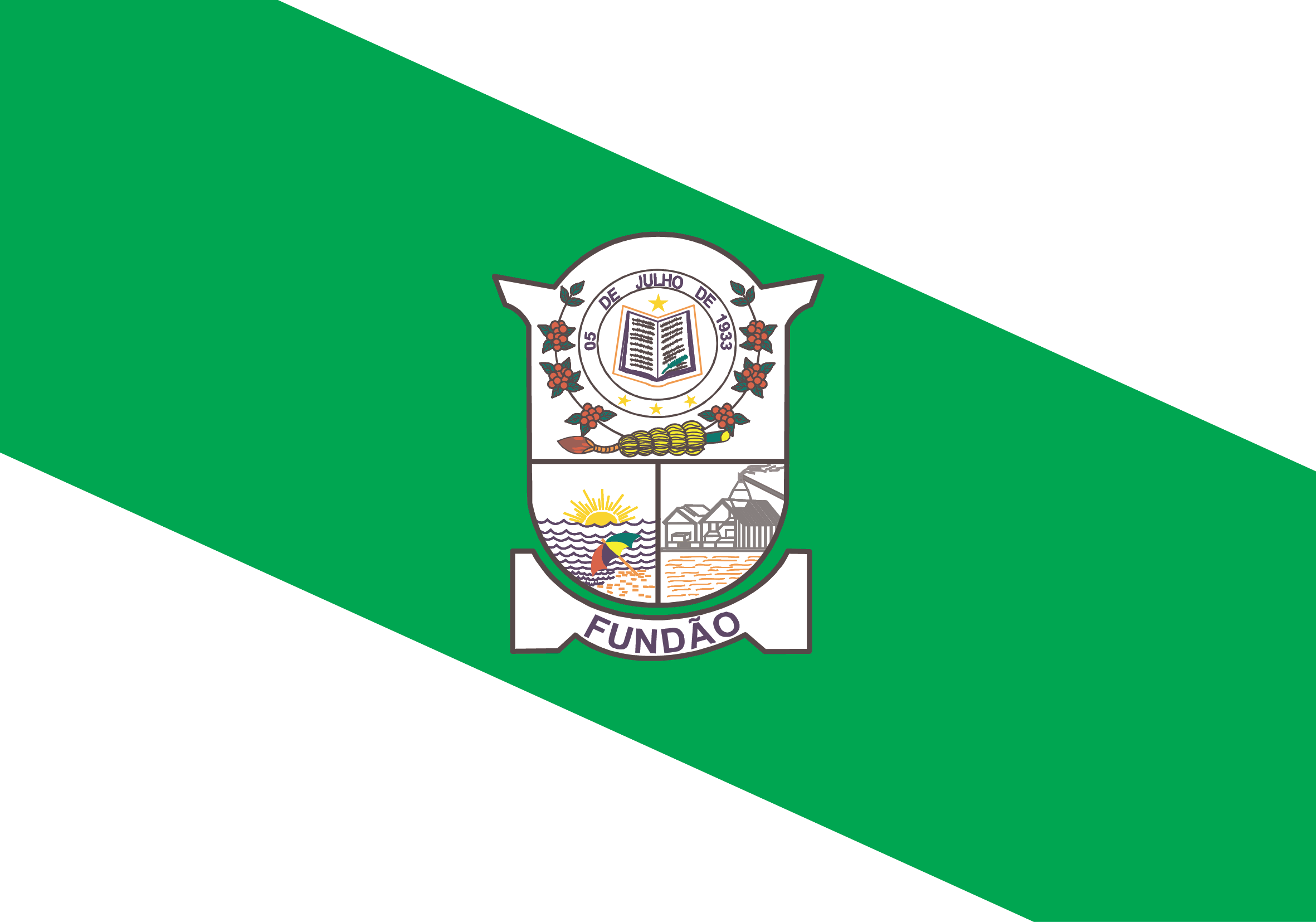 Flag of Fundão, Brazil